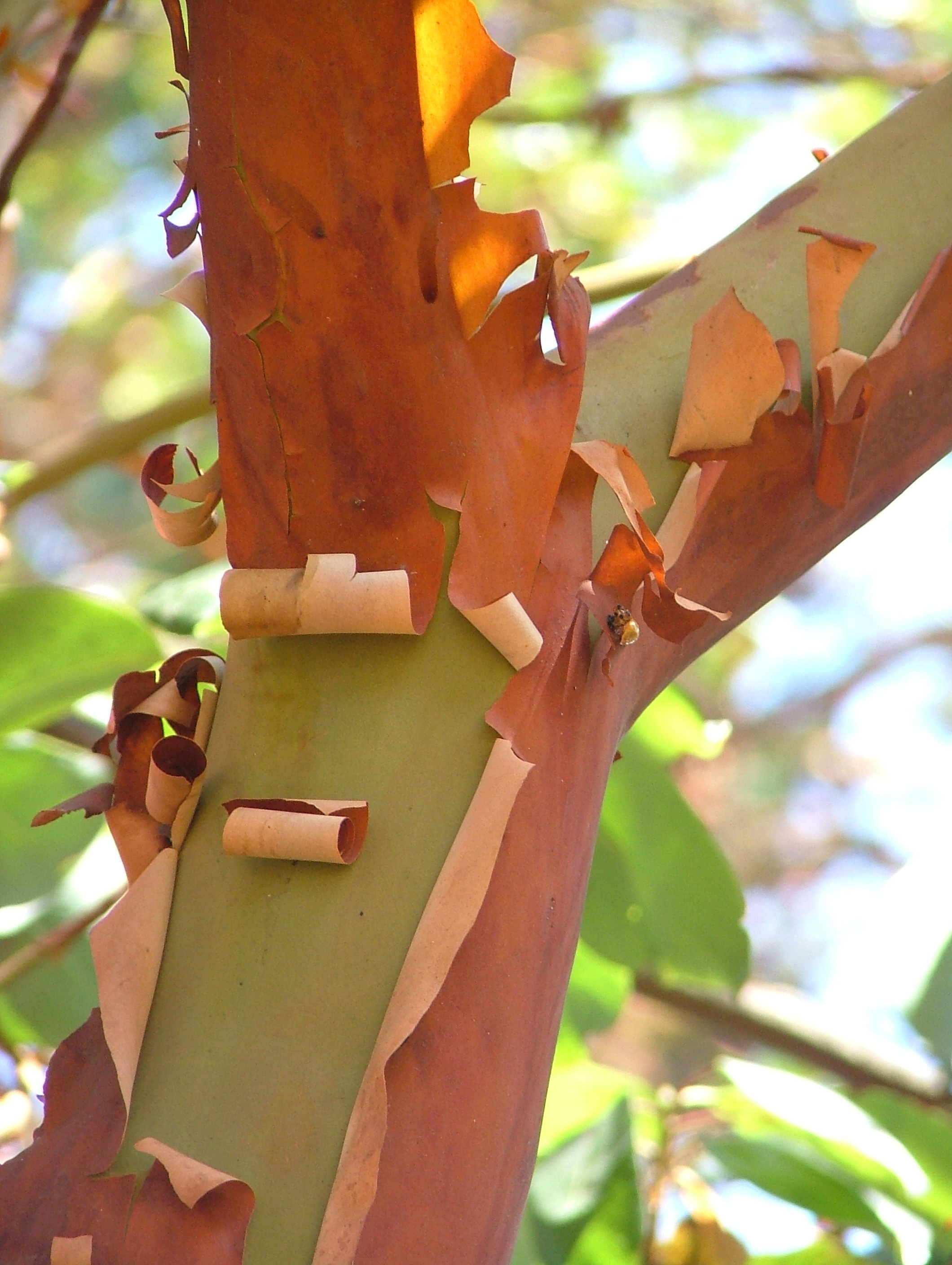 A photograph of a Pacific Madrone (Arbutus menziesii en ). Photo taken at the Orcas Island, Washington.